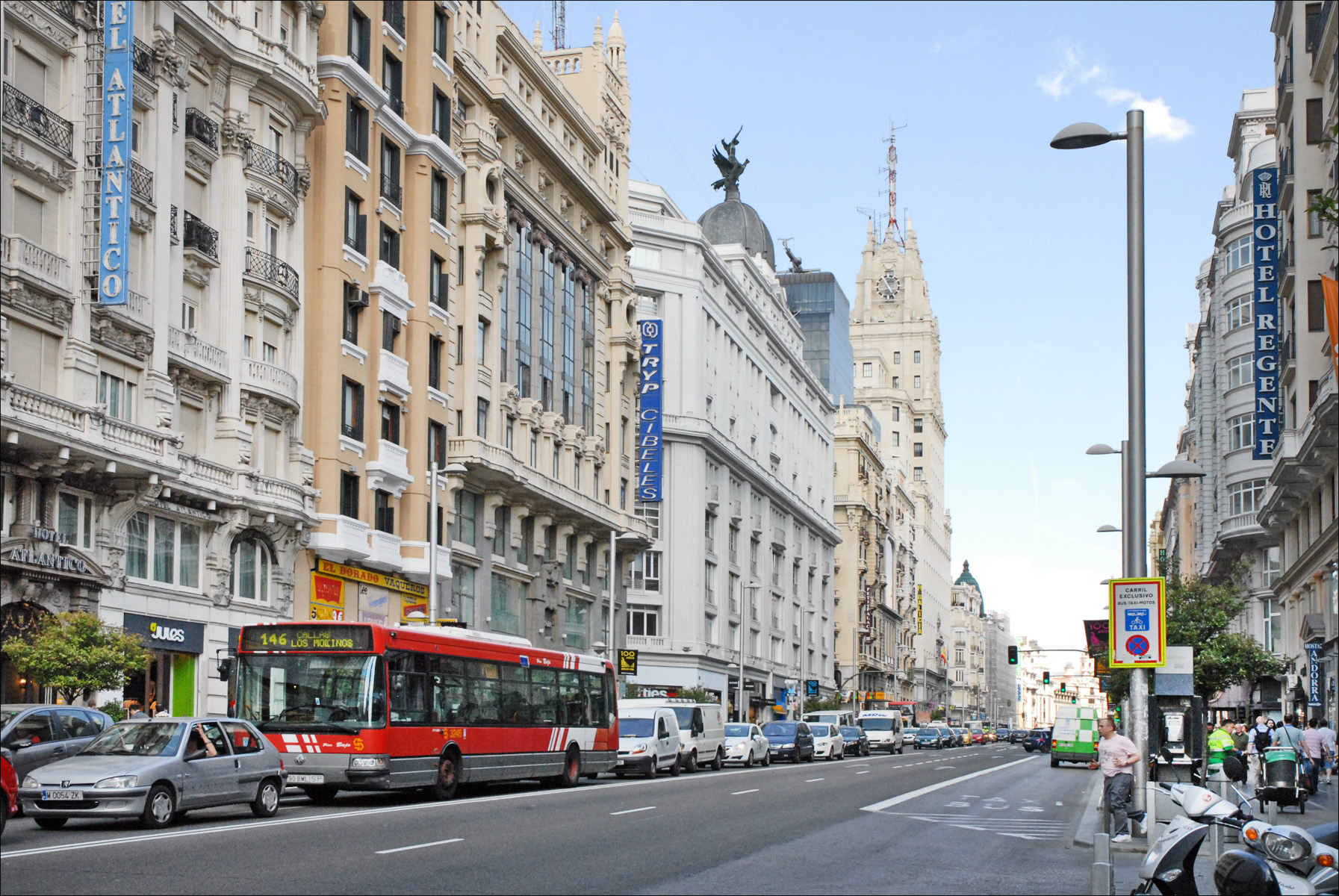 A view from Gran Vía, a downtown avenue in Madrid (Spain).